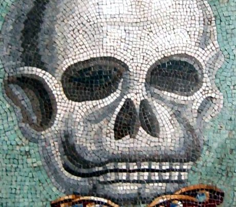 An extract from a mosaic held in the Naples National Archeology Museum. An identical shot was used in the film Pink Floyd: Live at Pompeii. Other information This file was cropped from the original image, reversed and brightness / contrast changed to closer match the shot as seen in the Pink Floyd film.